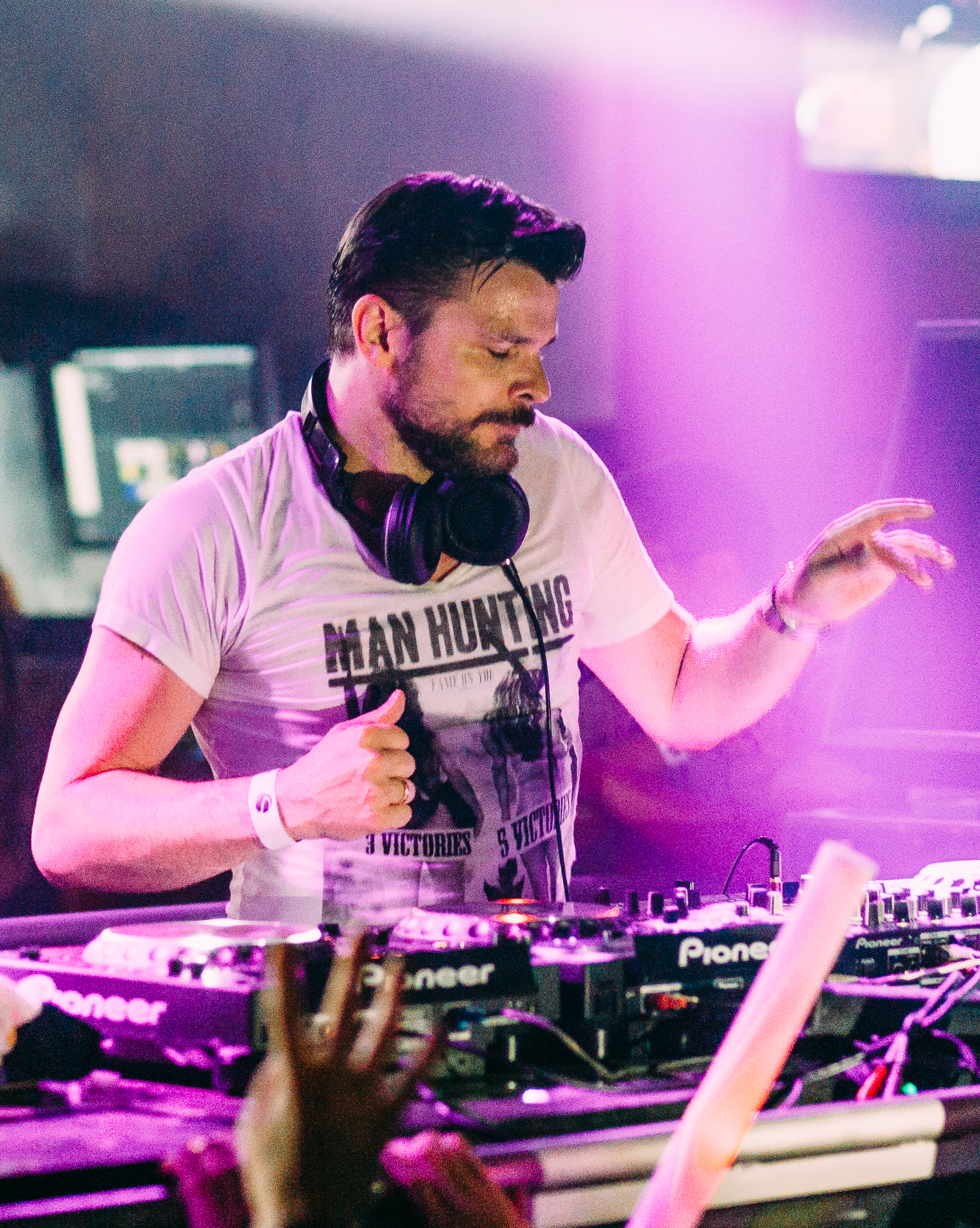 ATB Live @ Sutra, OC California